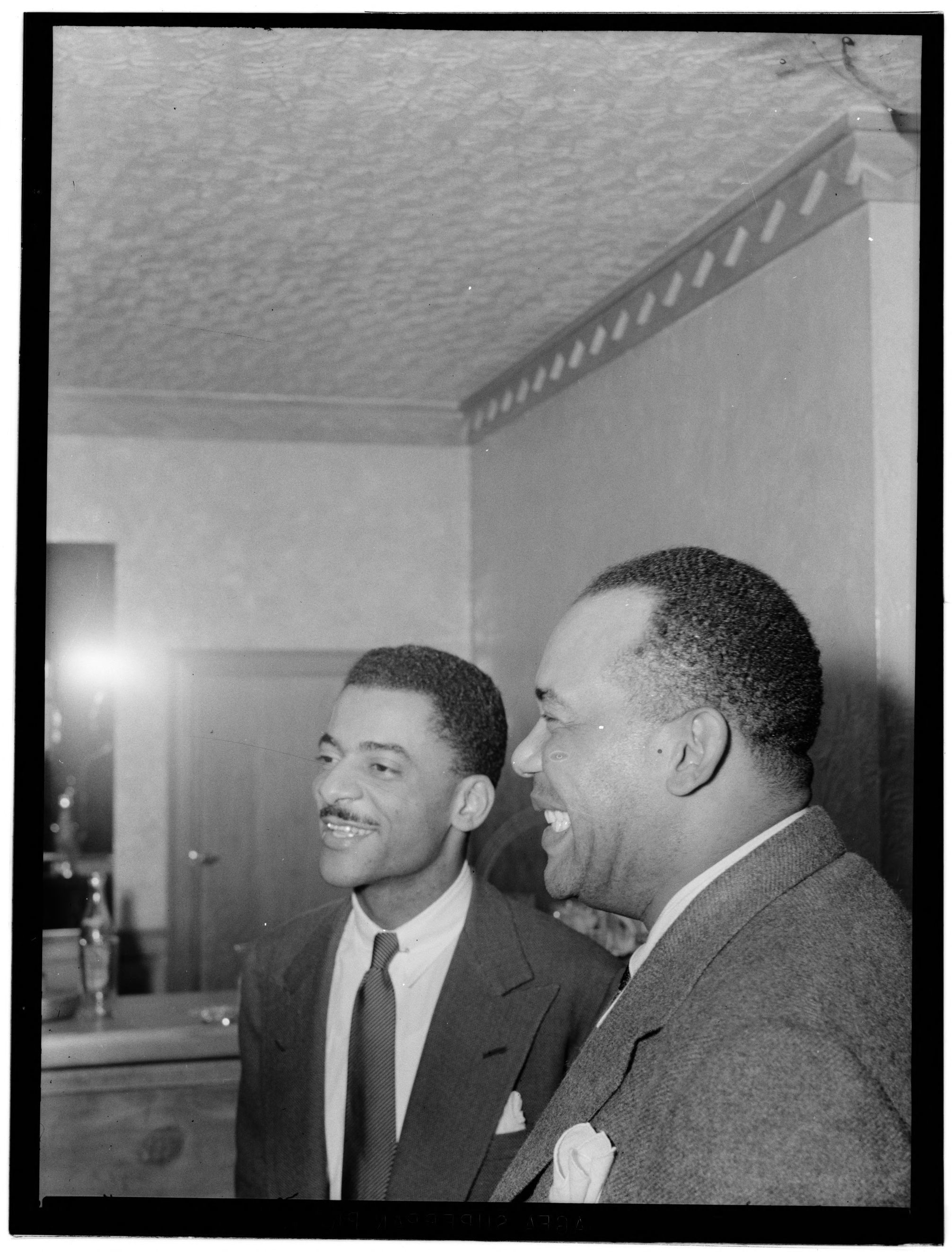 Portrait of Teddy Wilson and Zutty Singleton, Turkish Embassy, Washington, D.C